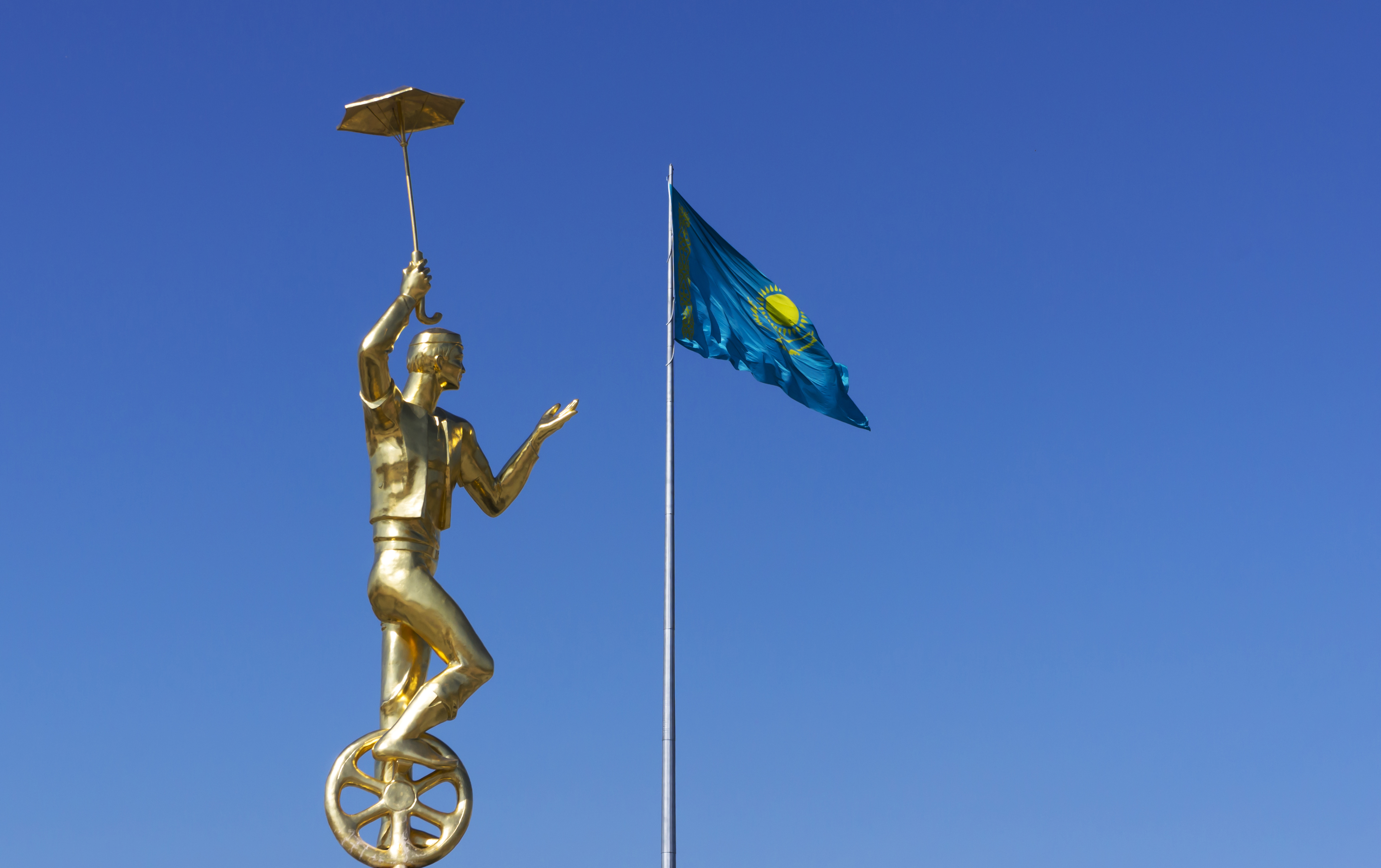 Flag of Kazakhstan in Nur-Sultan.Српски (ћирилица): Застава Казахстана са кипом. Нур-Султан, Казахстан.